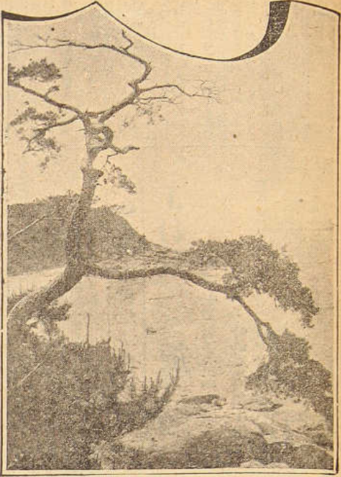 Neungheodae in 1927.